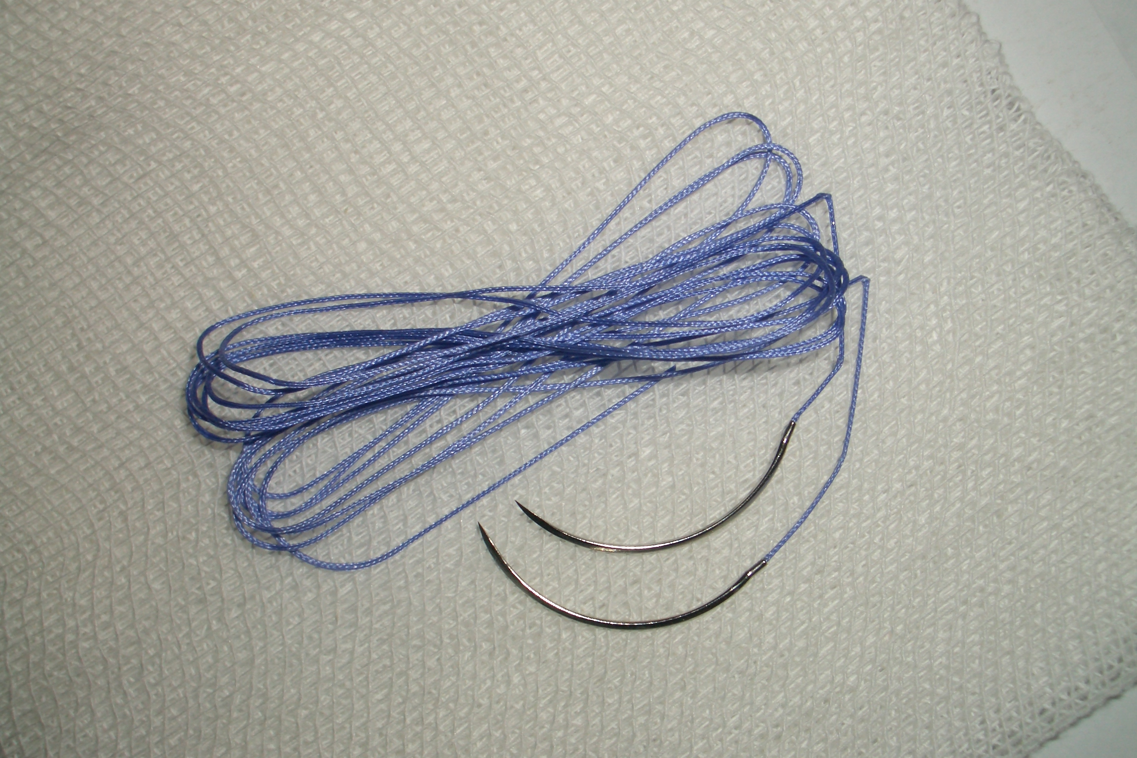 PGA is an ideal and time tested synthetic absorbable suture, widely used by surgeons all over the world. PGA's superior features over catgut are predictable absorption, outstanding tensile strength, in-vivo inertness and excellent handling properties.